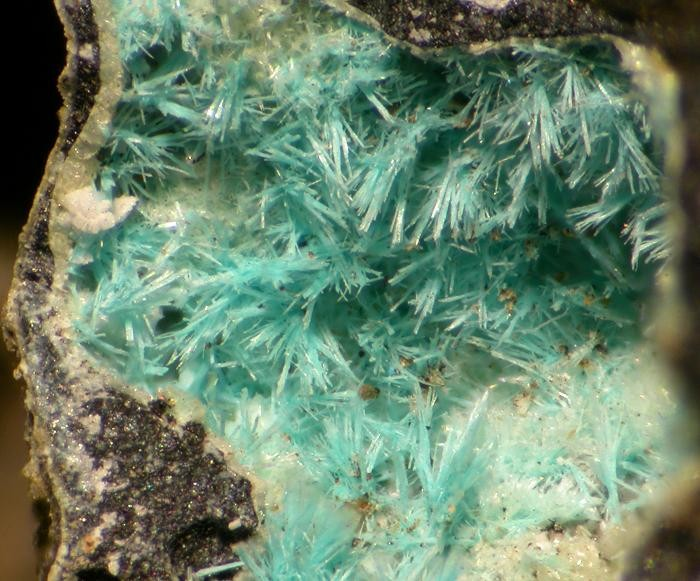 Botallackite Locality: Herzog Julius smelter (slag locality), Astfeld, Goslar, Harz Mts, Lower Saxony, Germany Field of view 4 mm. Depth of field is achieved with CombineZM. Specimen and photo Leon Hupperichs.